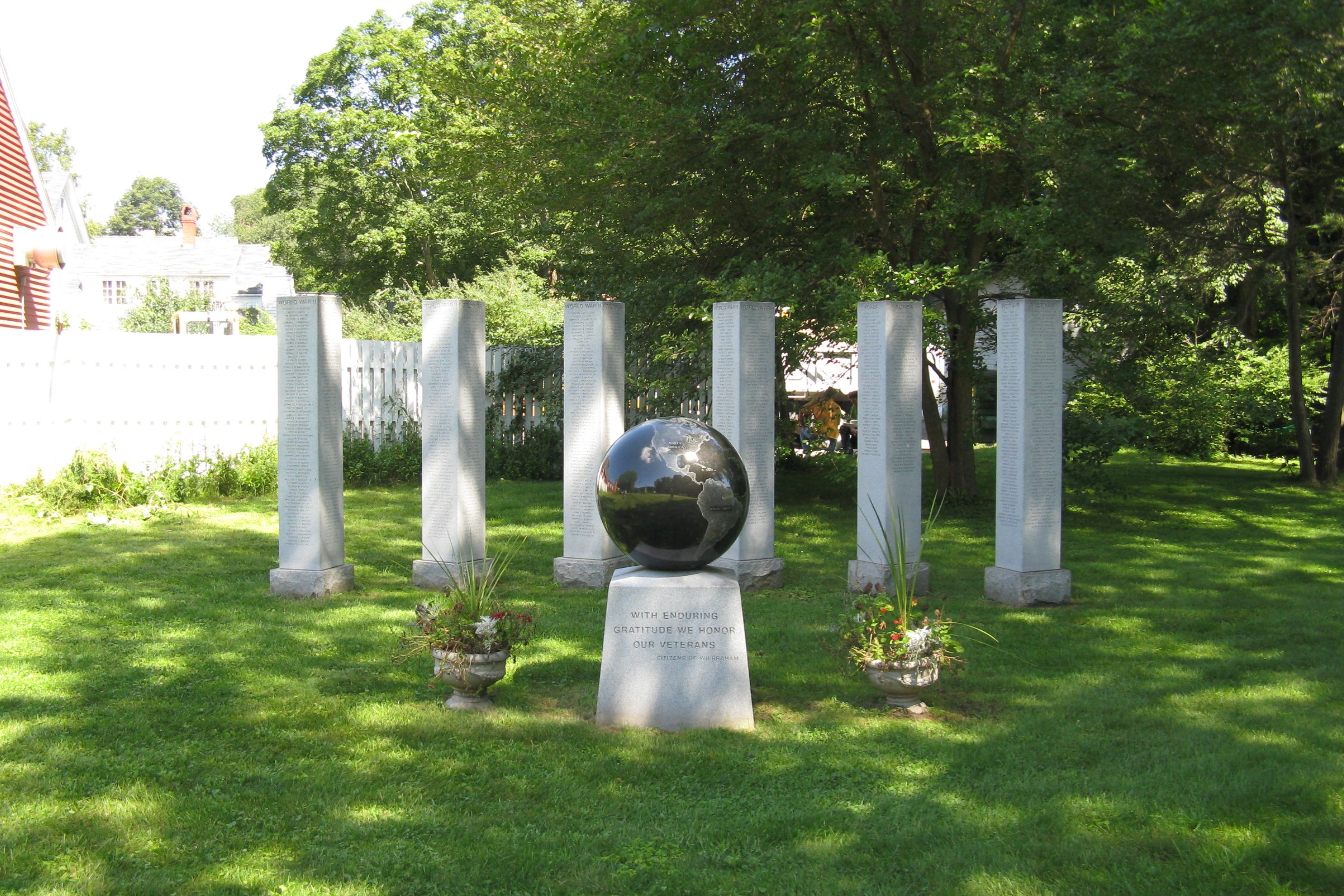 Veterans Memorial, Wilbraham Massachusetts